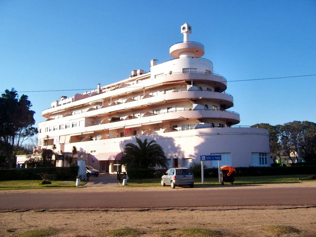 Edificio Planeta, Atlántida, Canelones Department, Uruguay.